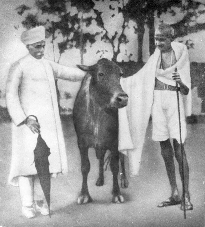 Mahatma Gandhi (1869-1948) with Pandit Madan Mohan Malaviya (1861-1946) standing near a Cow, somewhere in India